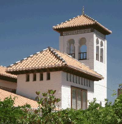 Great Mosque of Granada minaret